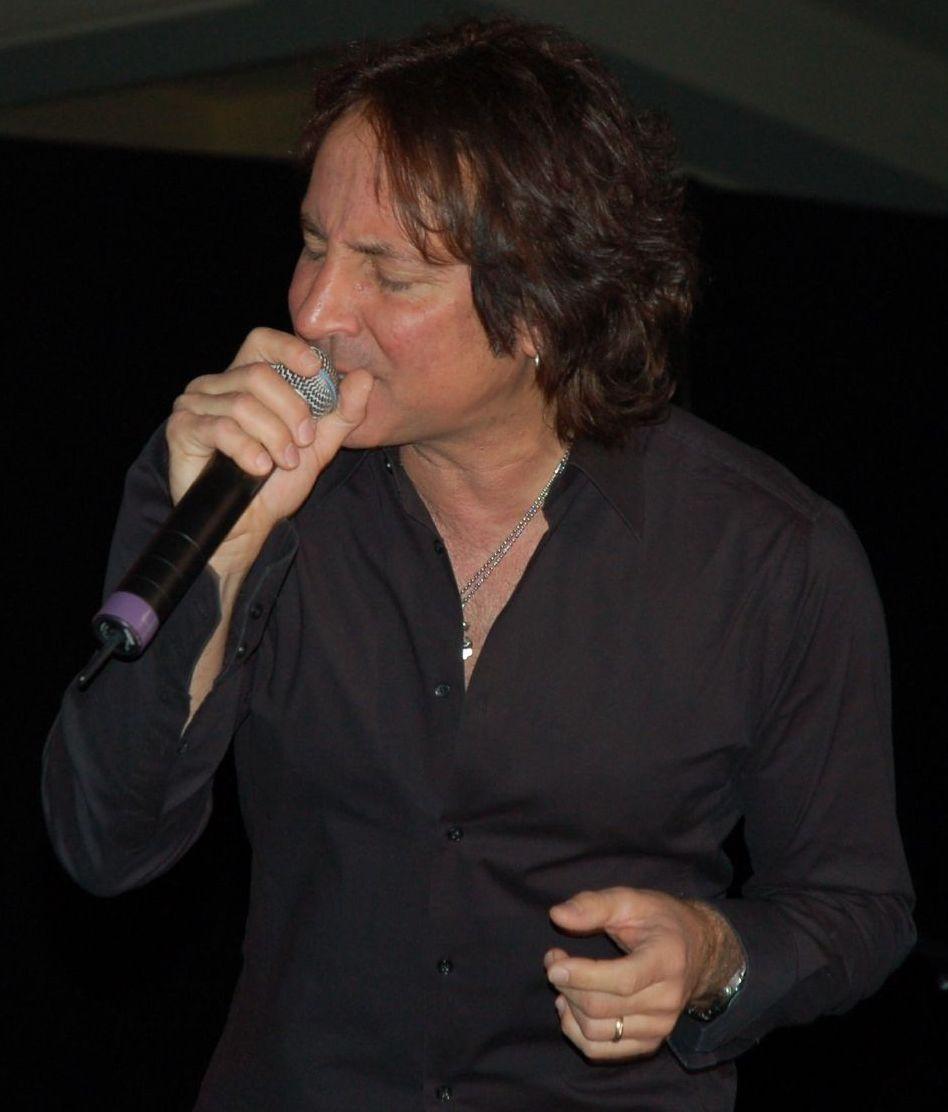 Steve Augeri performing at the Diplomat in Hollywood, Florida.